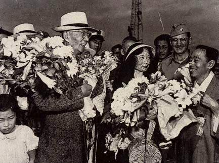 Seo Jp & Muriel Jaisohn & Kim Ks, Incheon, 1947.07.01